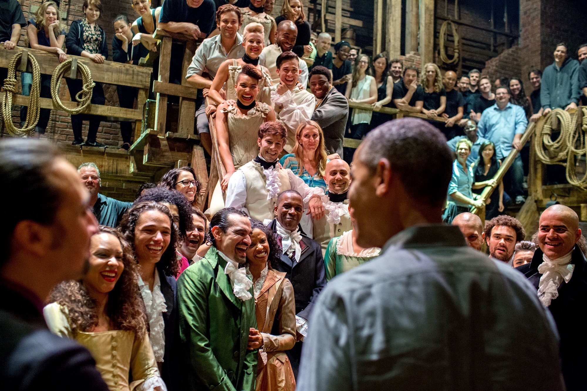 Verbatim from source: "The President greets the cast and crew of 'Hamilton' after seeing the play with his daughters at the Richard Rodgers Theatre in New York City." (Official White House Photo by Pete Souza)